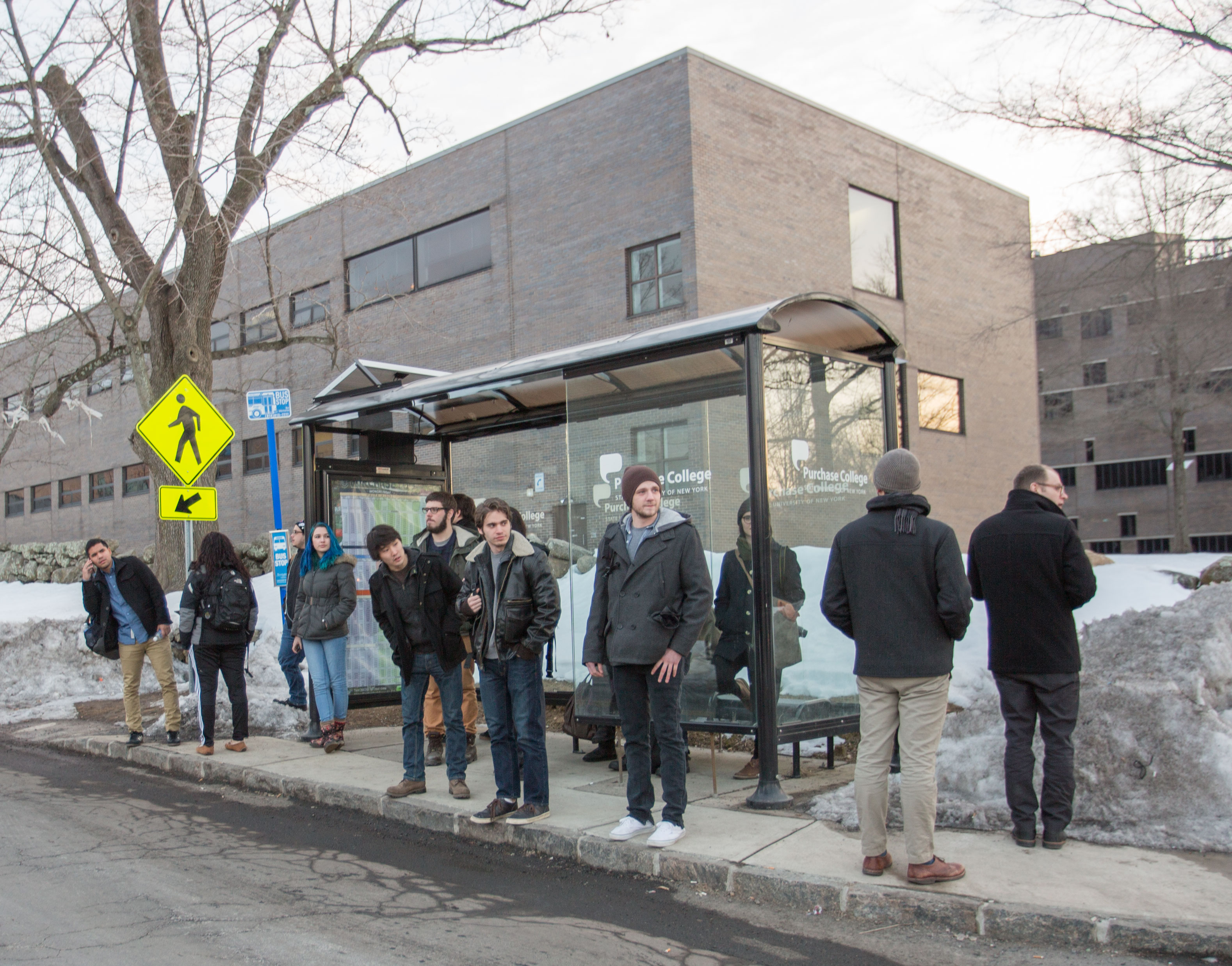 People waiting at bus stop in Purchase, New York, moments before the bus arrives.